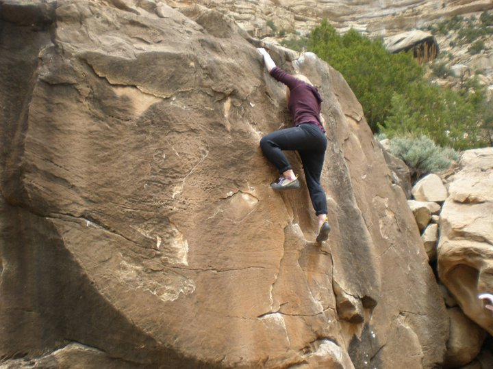 Whitney Foster bouldering at Joe's Valley.